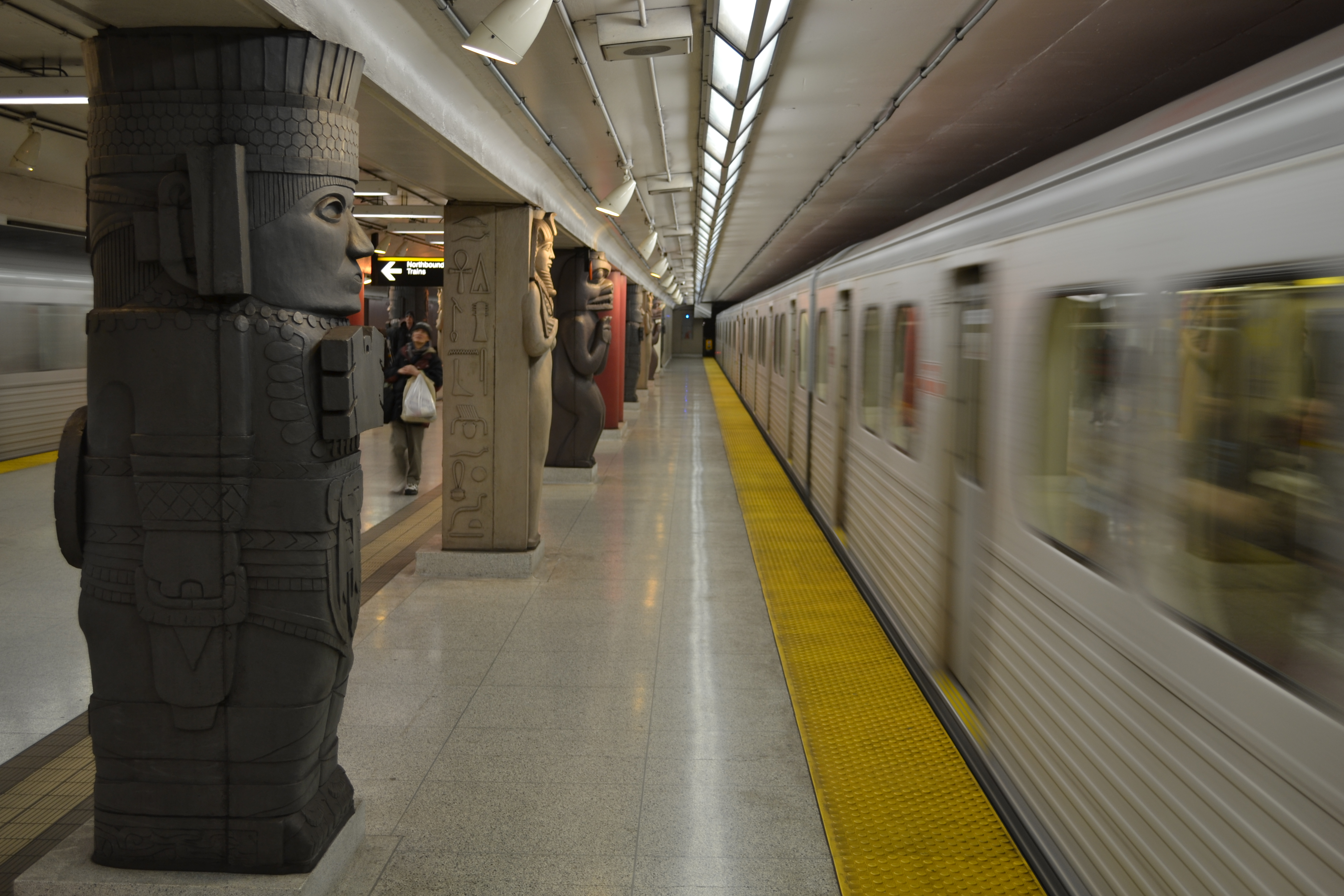 Museum TTC Subway Station.